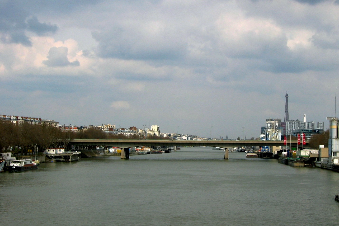 The Pont Aval, last bridge on the Seine in Paris